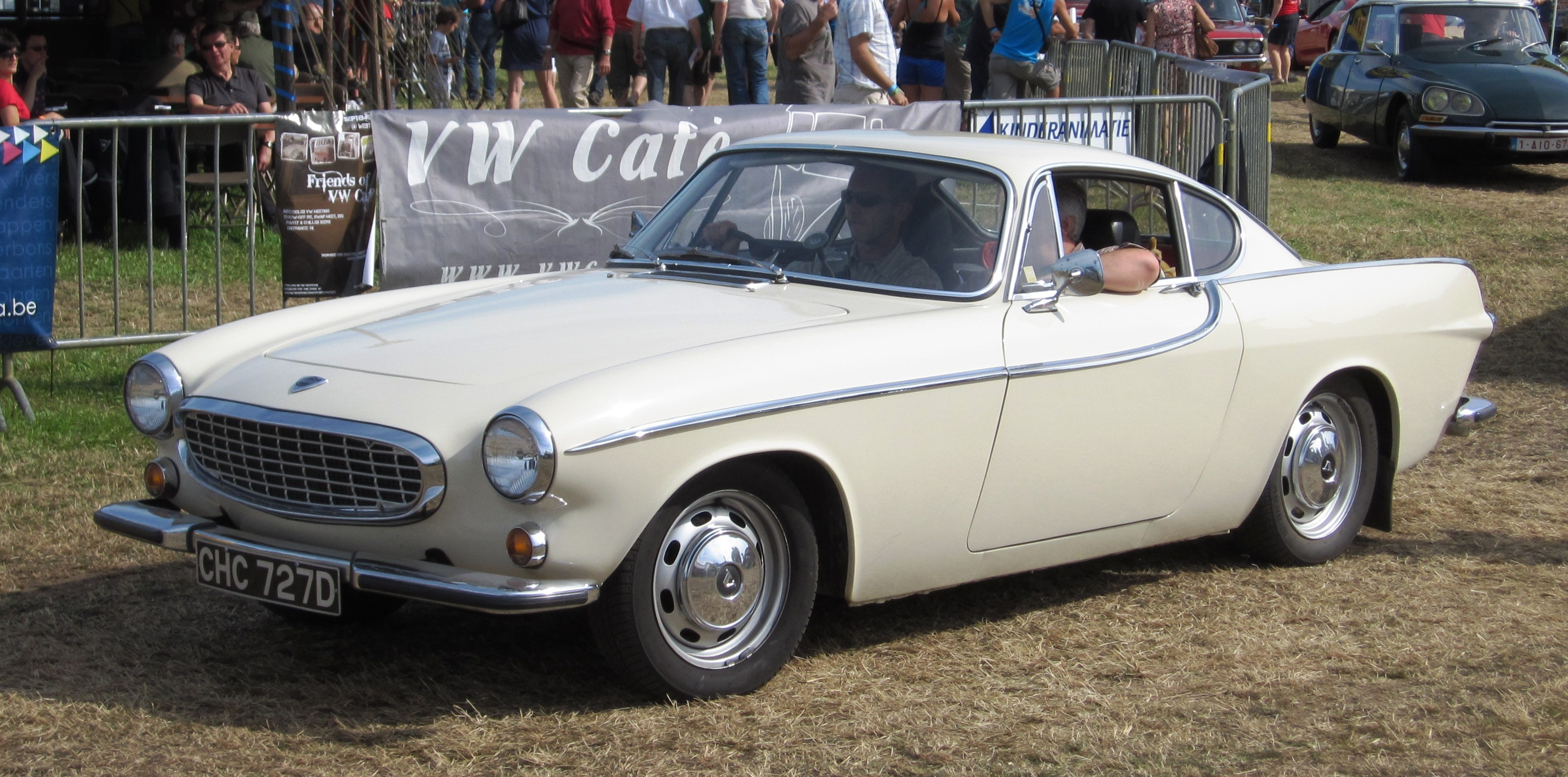 Volvo 1800 1780cc first reg UK May 1966